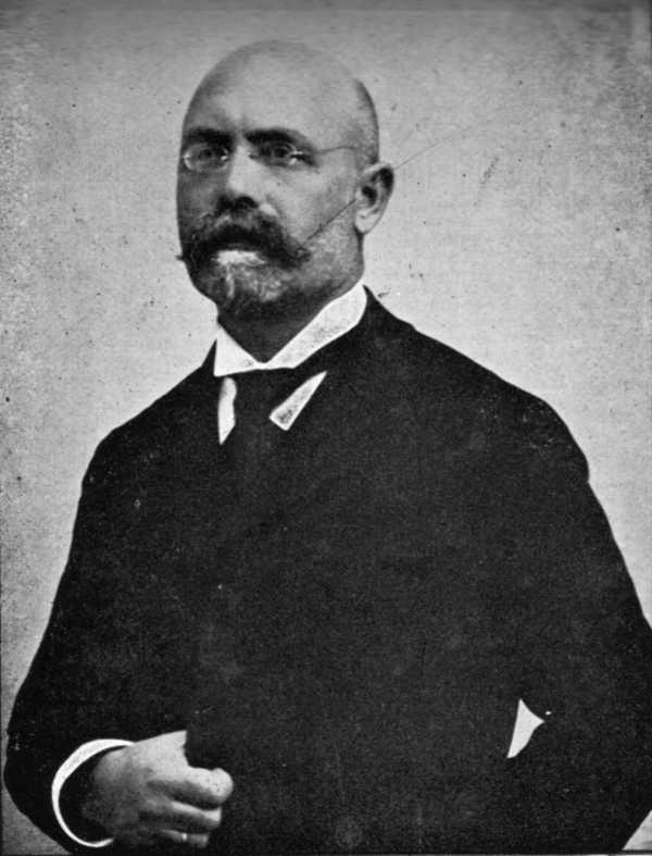 Photo Ioannis Sfakianakis